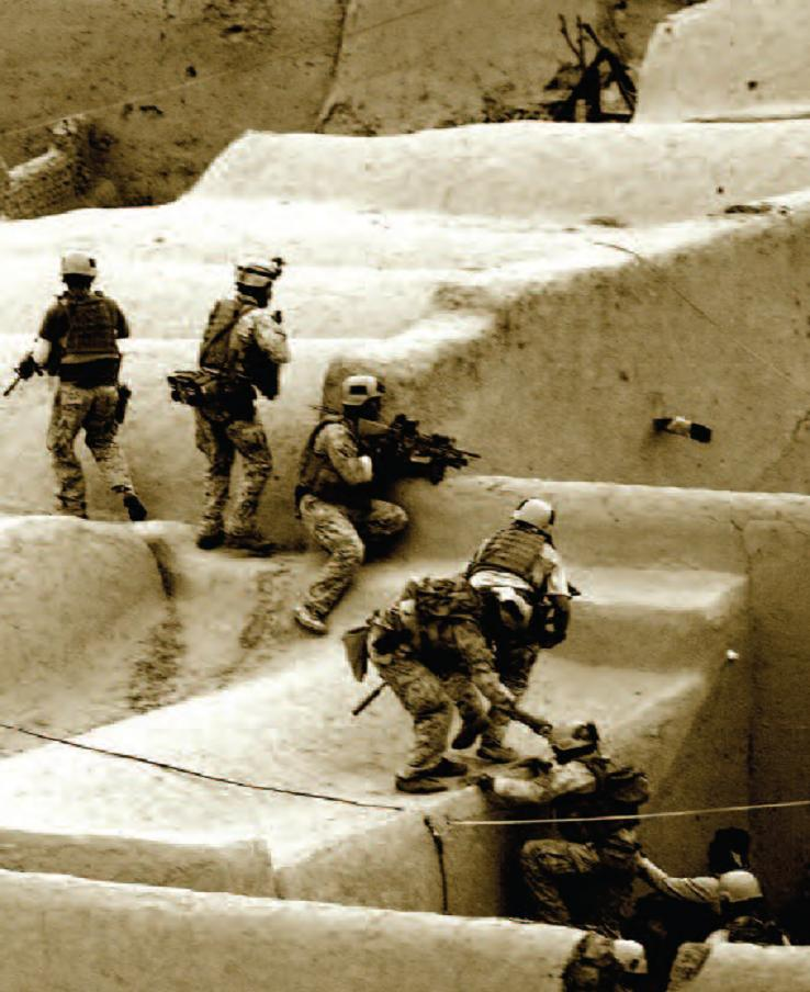 DASR Operators from 1st MSOB train on rock buildings.